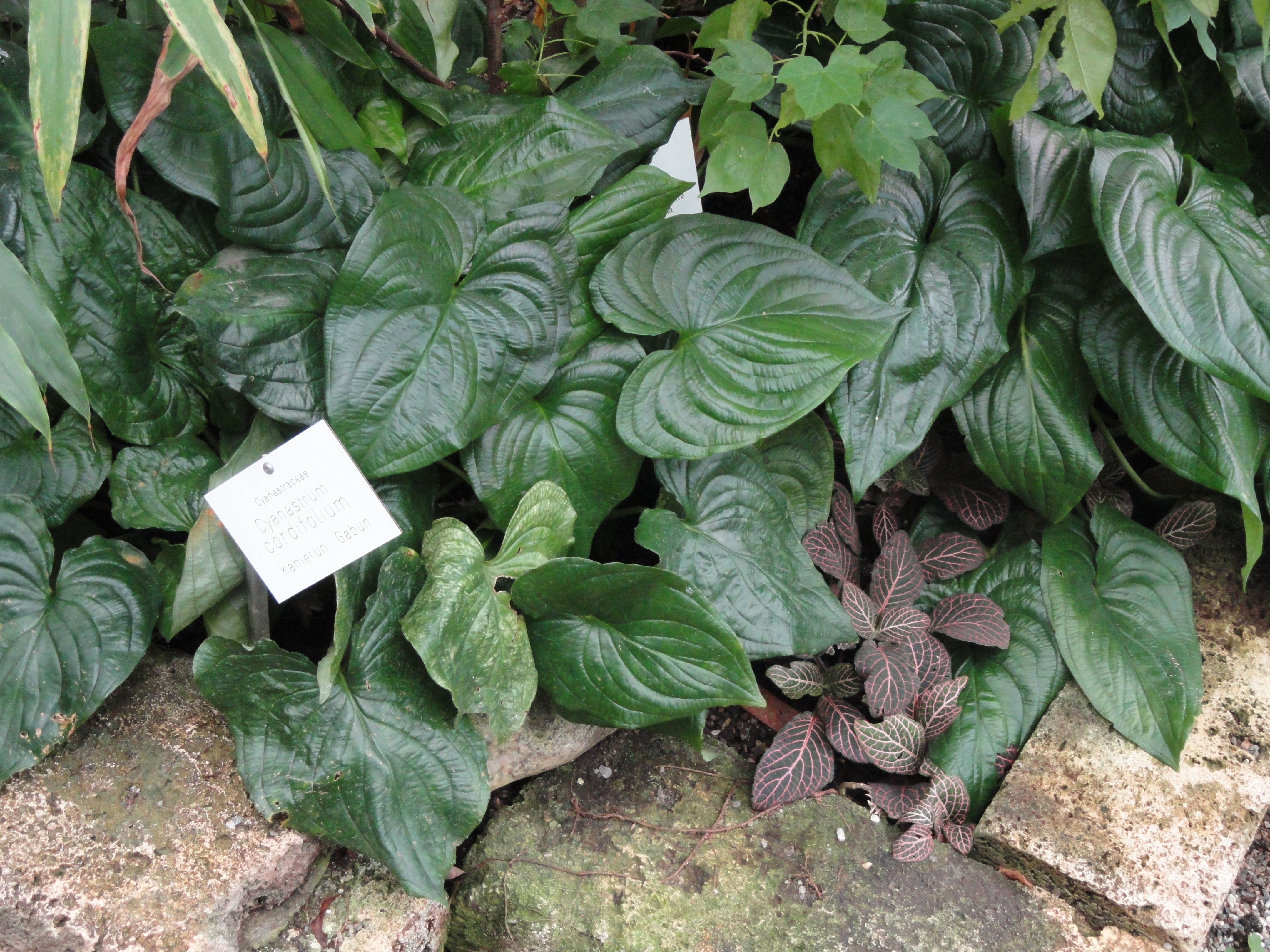 Cyanastrum cordifolium specimen in the Botanischer Garten Freiburg, Freiburg im Breisgau, Baden-Württemberg, Germany.